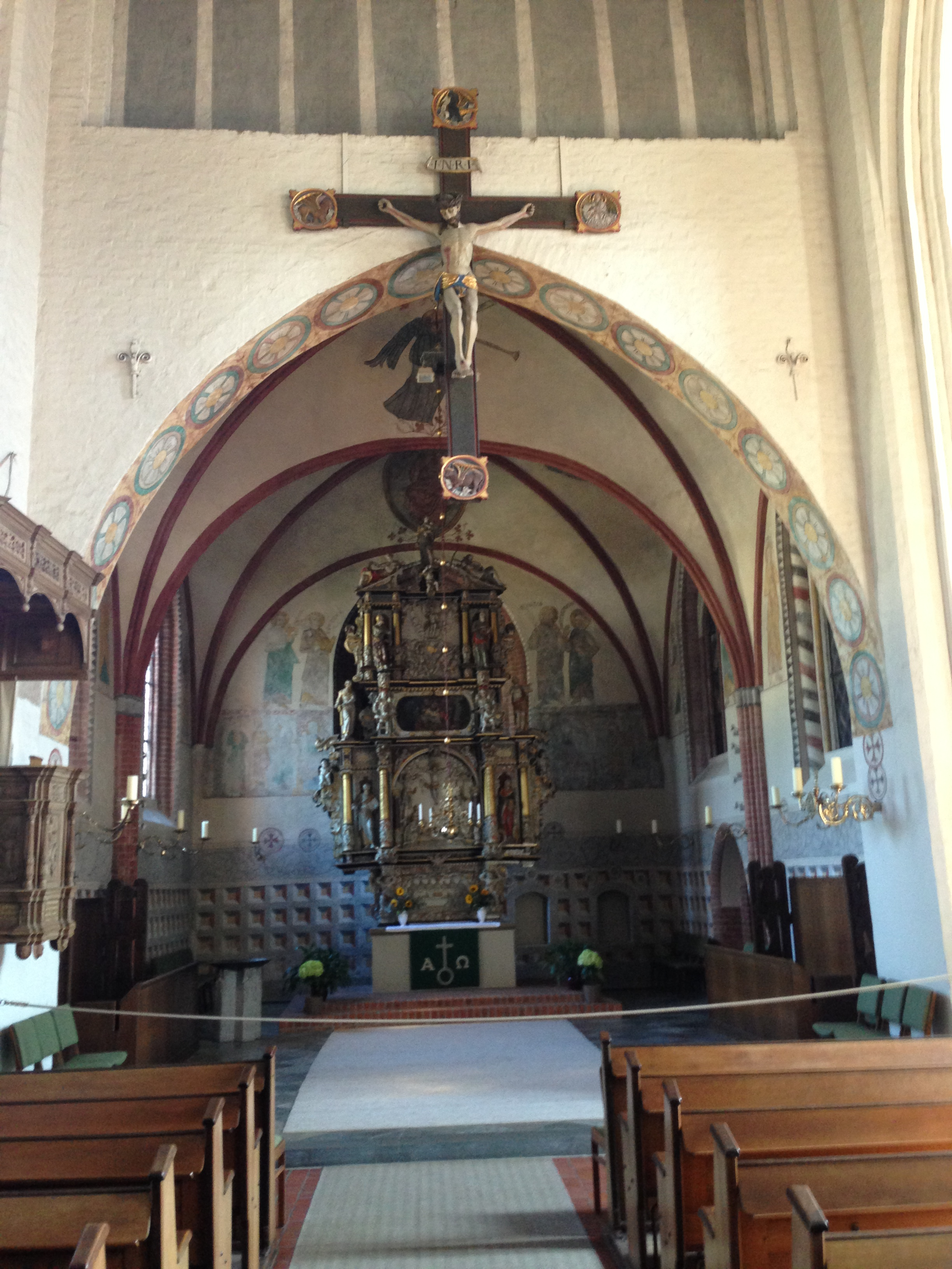 Interior of Stadtkirche Neustadt in Holstein